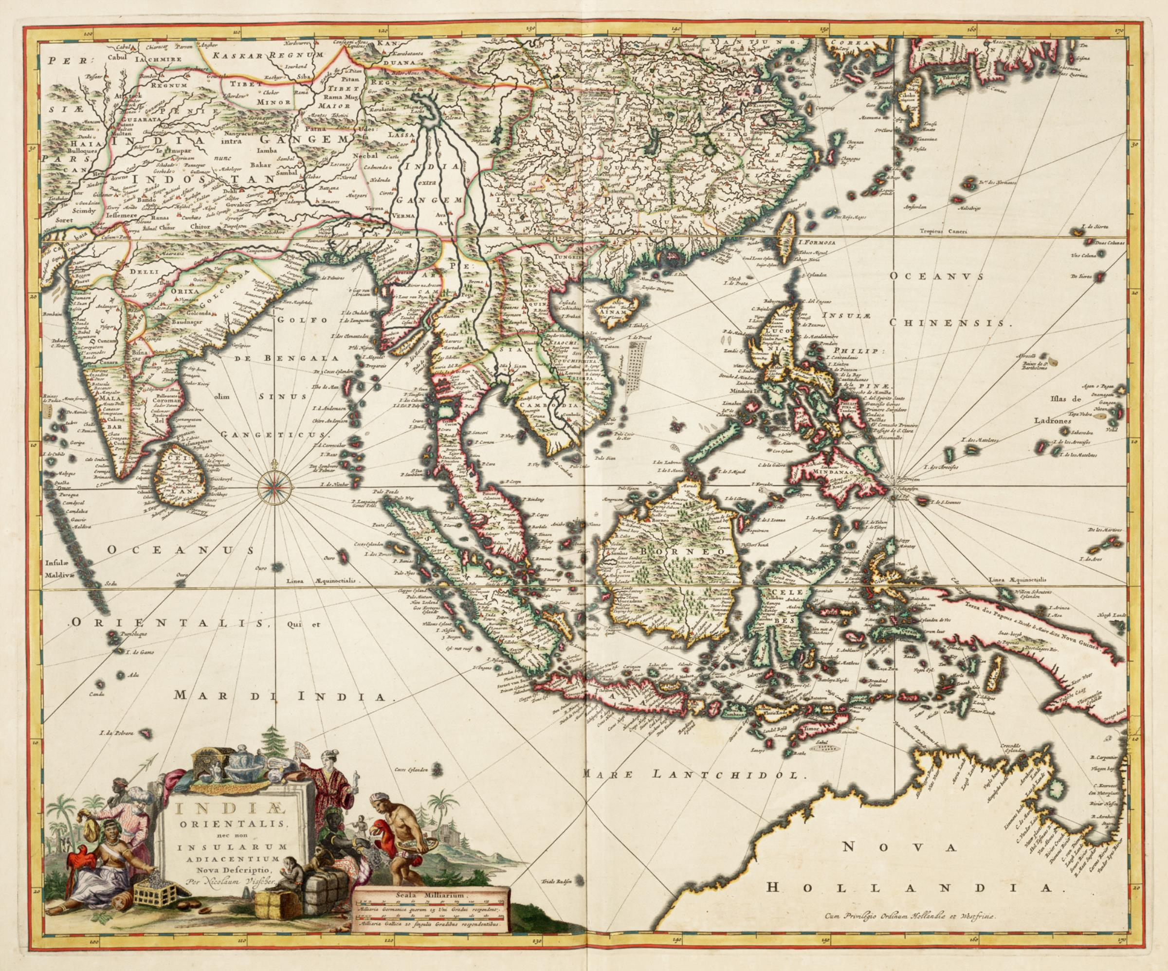 Map of East India, taken from the Atlas van der Hagen, Koninklijke Bibliotheek, The Hague Part 4. This map of South East Asia was published by Nicolaas Visscher II (1649-1702). The map shows the entire trading region of the Dutch East India Company (VOC).